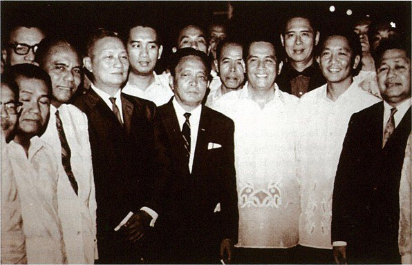 President Diosdado Macapagal, third from right, poses between Speaker Villareal and Senate President Ferdinand Marcos after delivering his 1963 SONA.